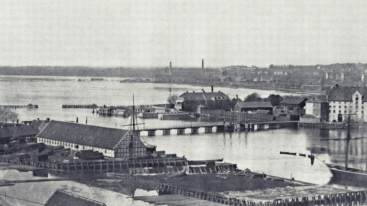 Langebro from Christians Kirke's tower in Copenhagen, Denmark